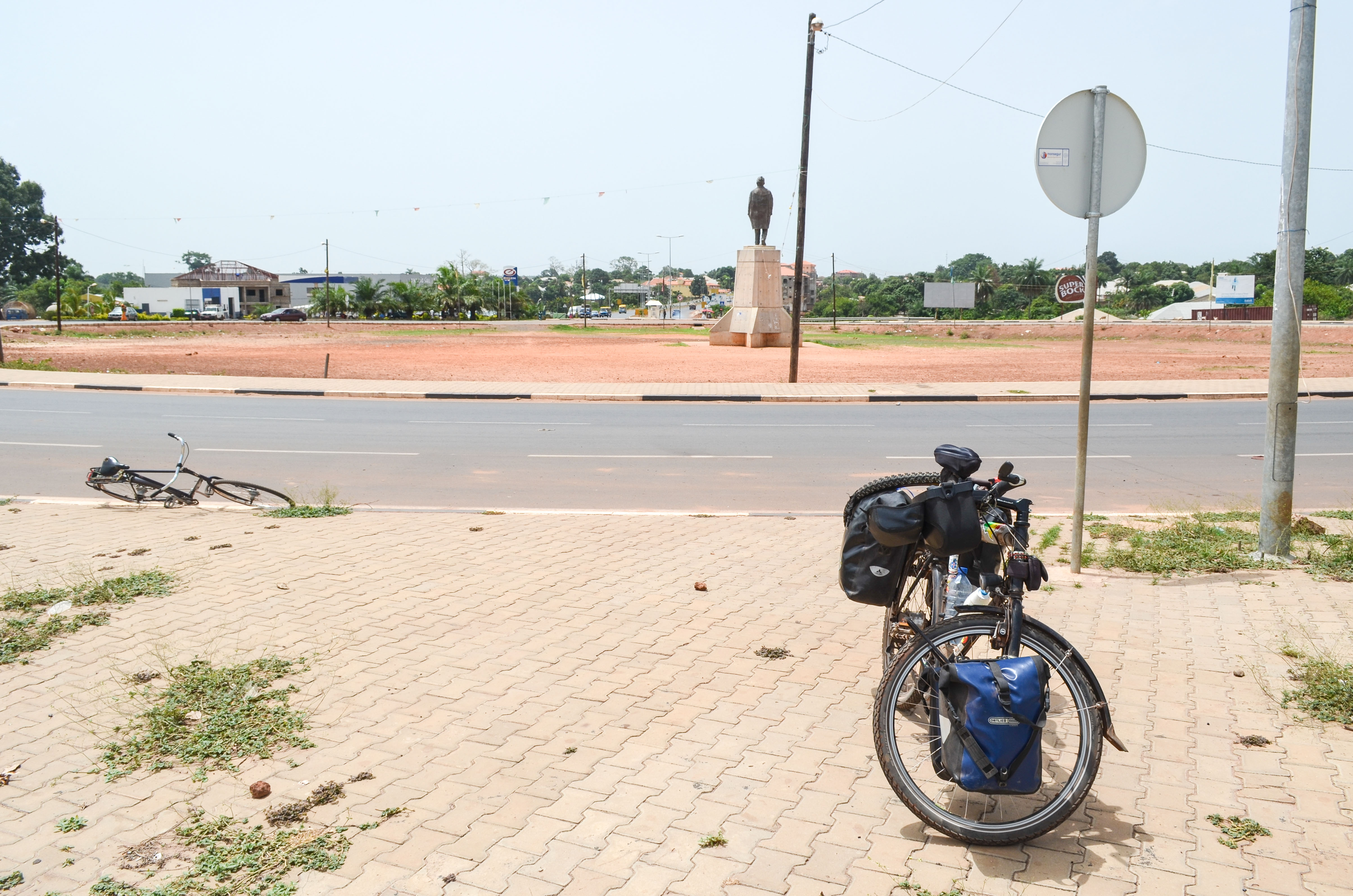 Osvaldo Vieira statue at the Airport's roundabout of Bissau's airport. Bissau, Guinea-Bissau.